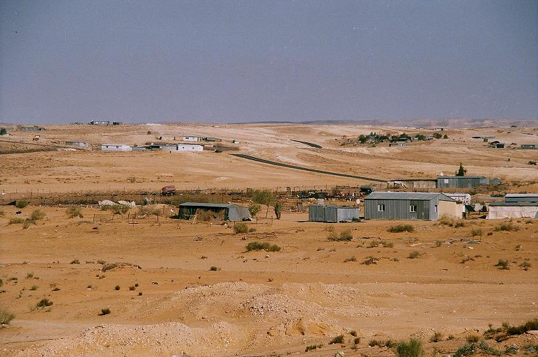 Bir Hadaj, Israel